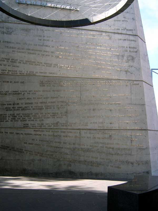 Vietnam Forces National Memorial on ANZAC Parade, the ceremonial and memorial avenue of Canberra, the capital city of Australia. Descriptive phrases are mounted on the inner surface of the right wall. I took this picture on Thursday 28 April 2005. Peter Ellis 04:19, 30 Apr 2005 (UTC)